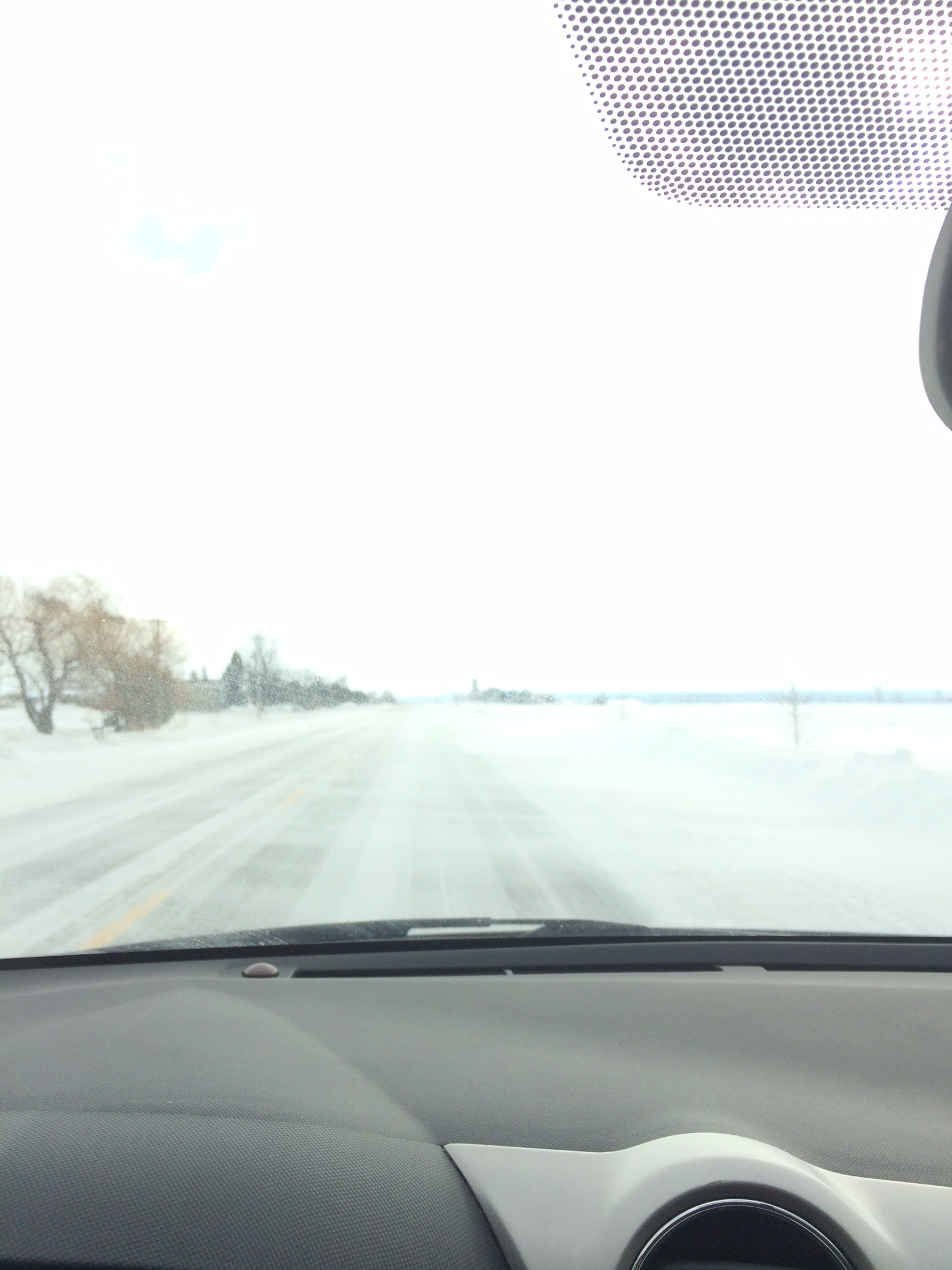 view on route 148 east bound in snowstorm in Mirabel